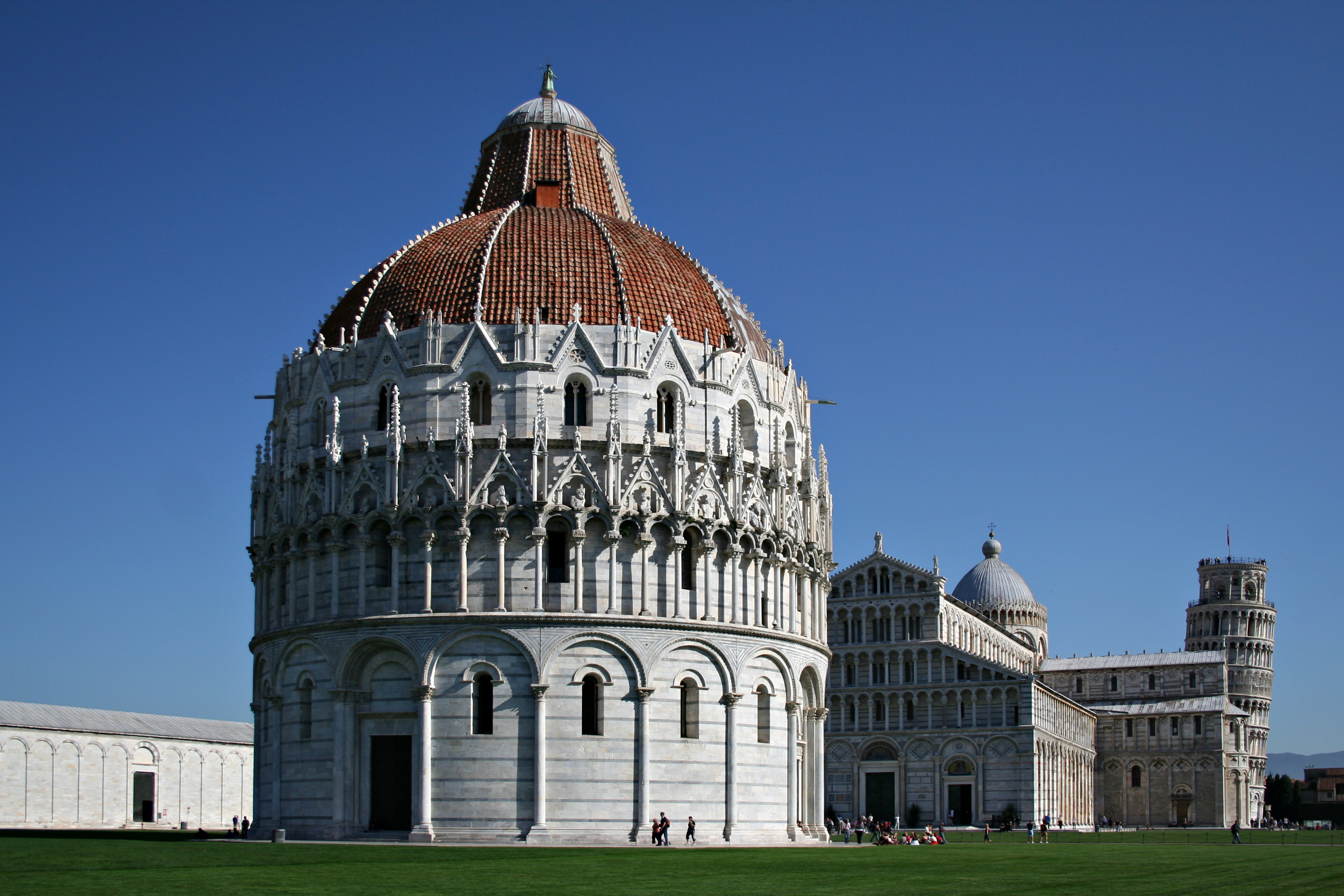 A photograph taken of the Campo dei Miracoli in Pisa. Edit by Mfield to straighten verticals, LCE.